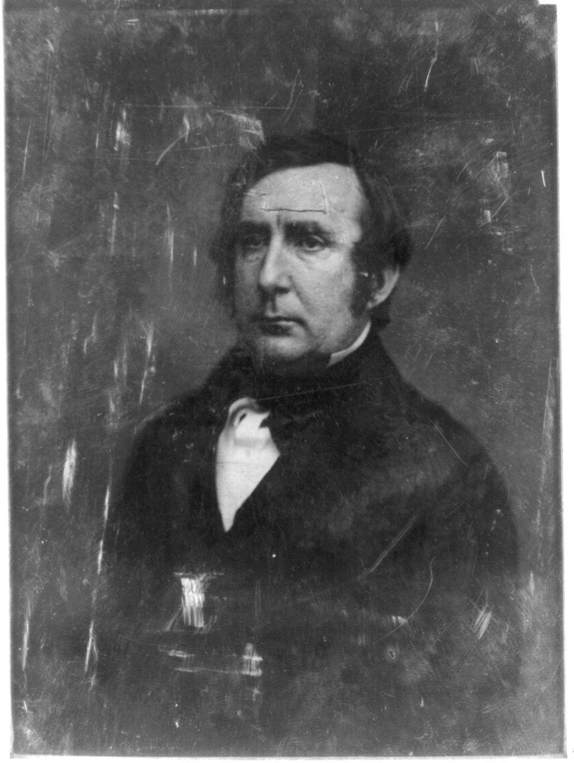 Philip Phillips, half-length portrait, three-quarters to the left . Democratic Congressman from Alabama, 1853-1855.